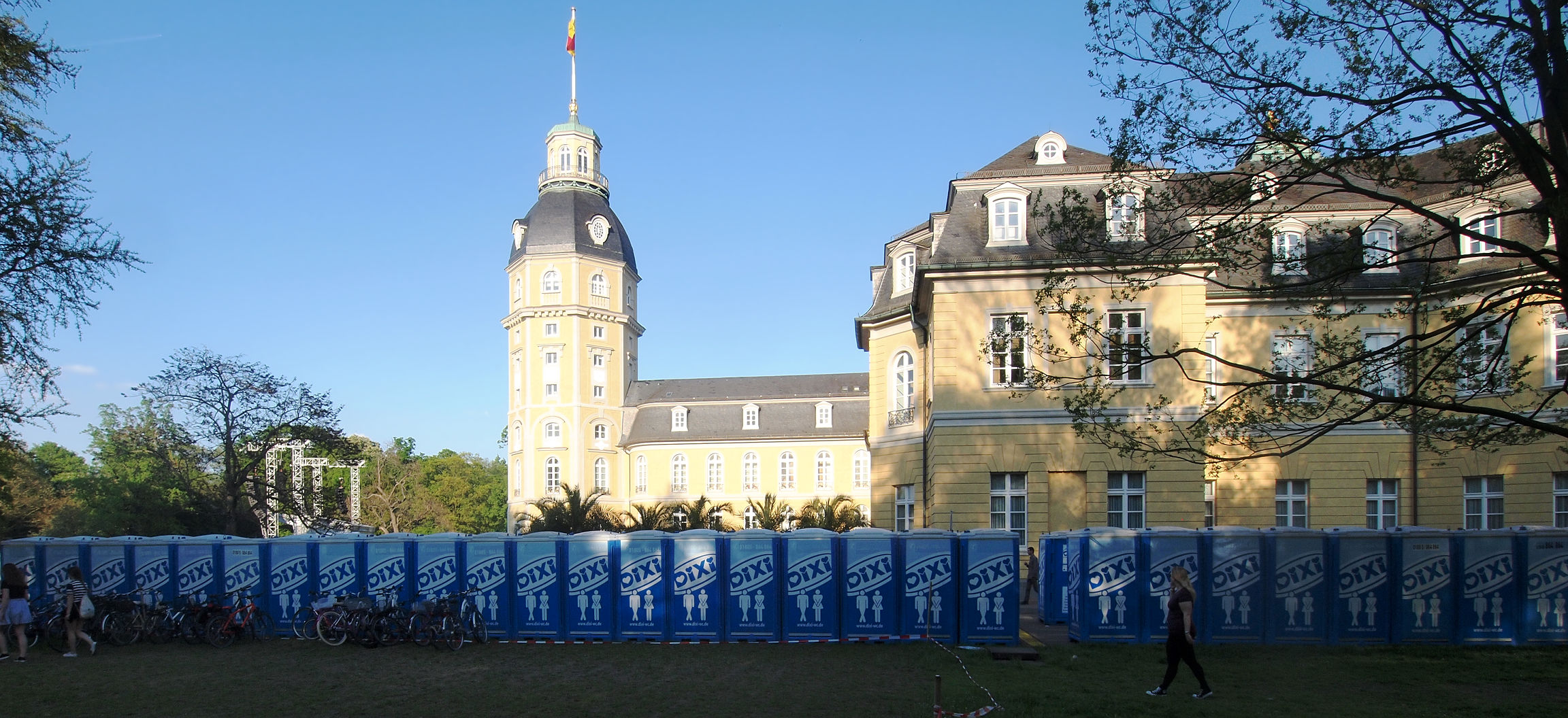 Portable toilets in front of Karlsruhe Palace during a youth convention